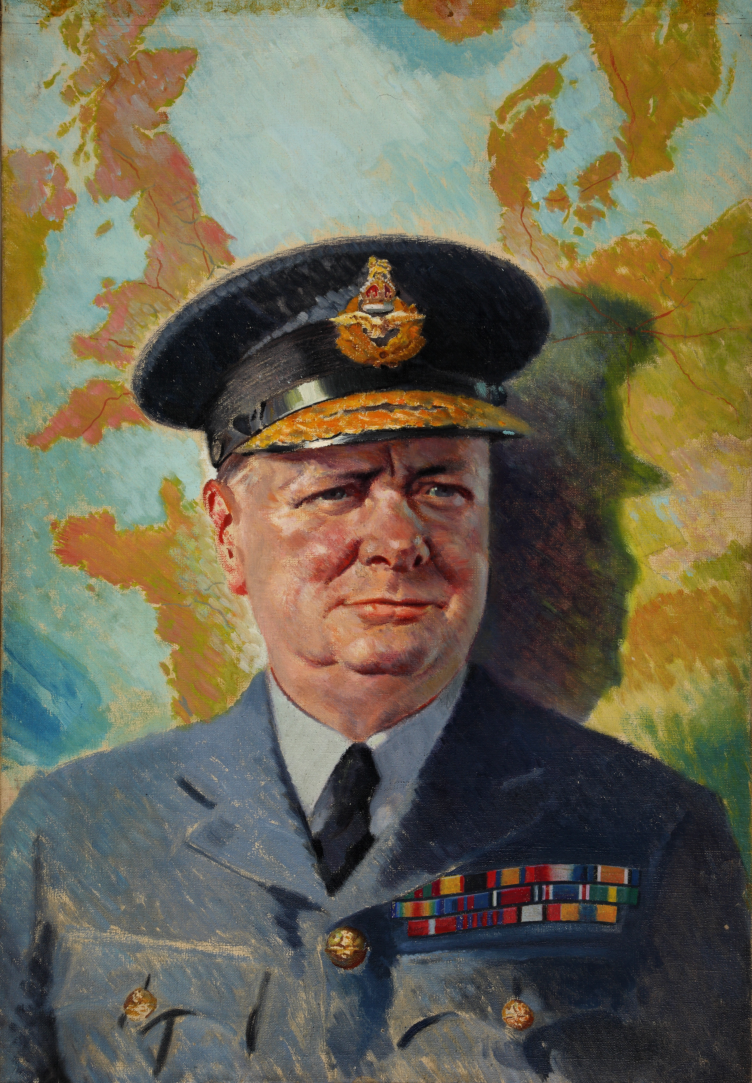 Winston Churchill in RAF uniform Depicted person: Winston Churchill